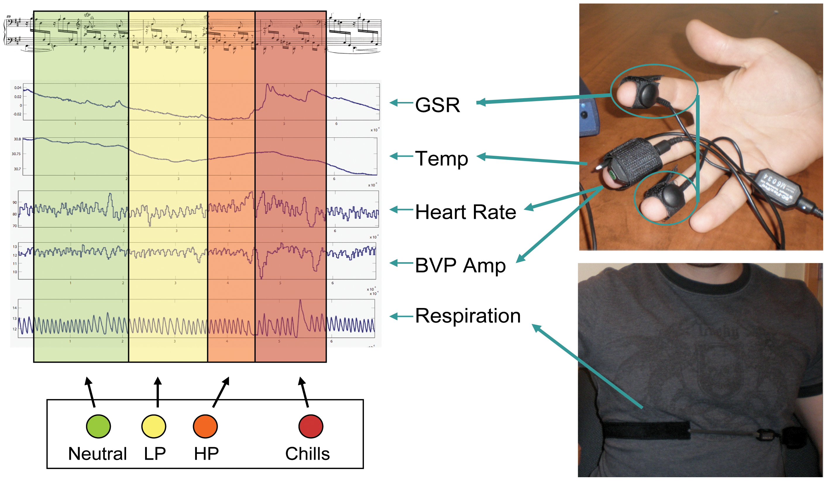 psychophysiological measurements of musical pleasure